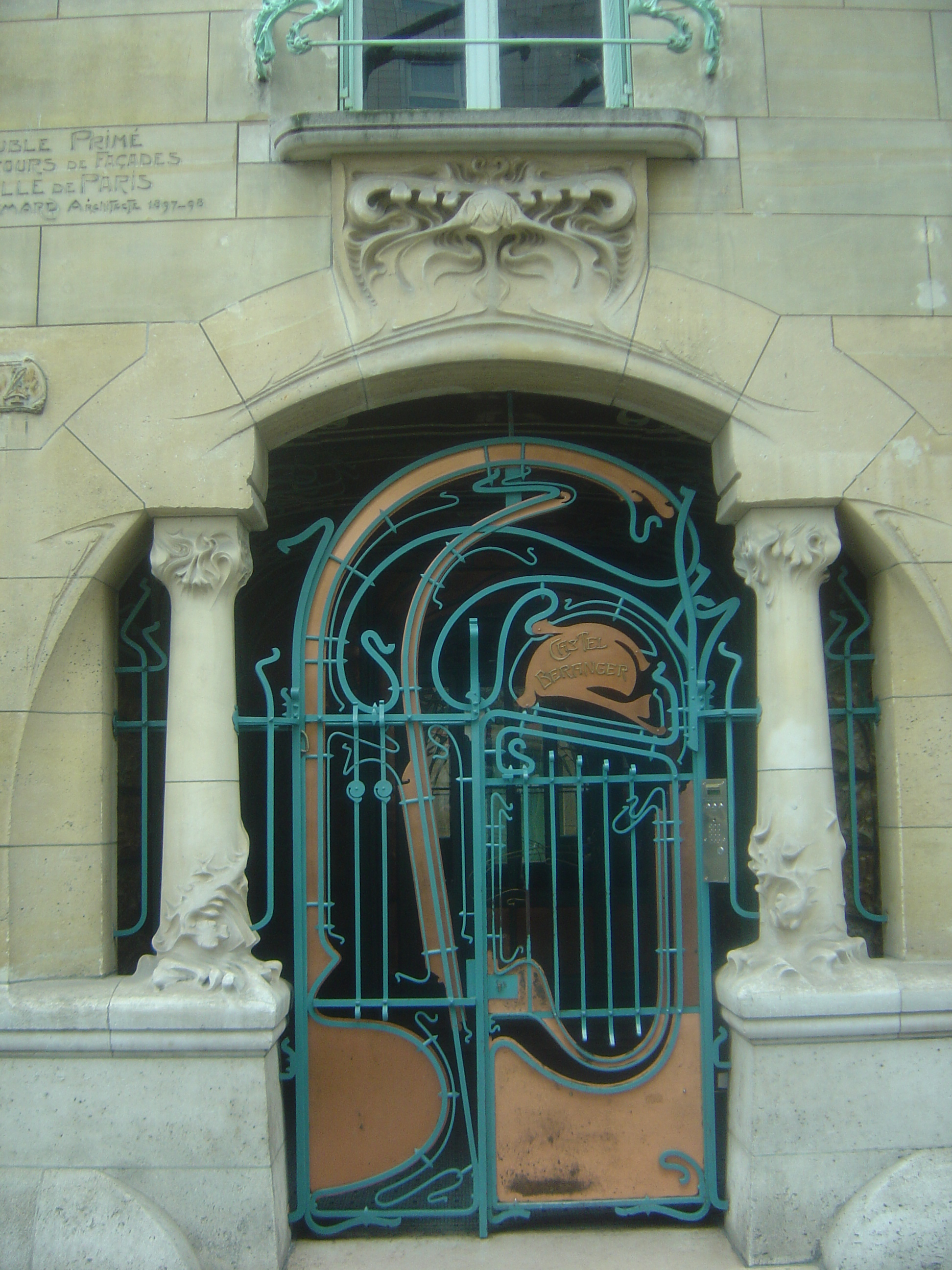 Art Nouveau entrance to Castel Beranger, Paris